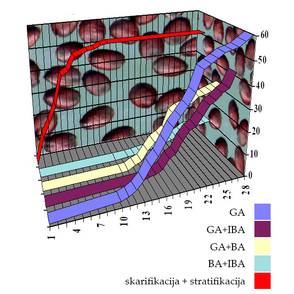 Cercis siliquastrum Dormancy-breaking treatments